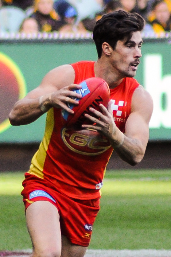 Alex Sexton during the AFL round twelve match between Melbourne and Collingwood on 10 June 2017 at the Melbourne Cricket Ground in Melbourne, Victoria.